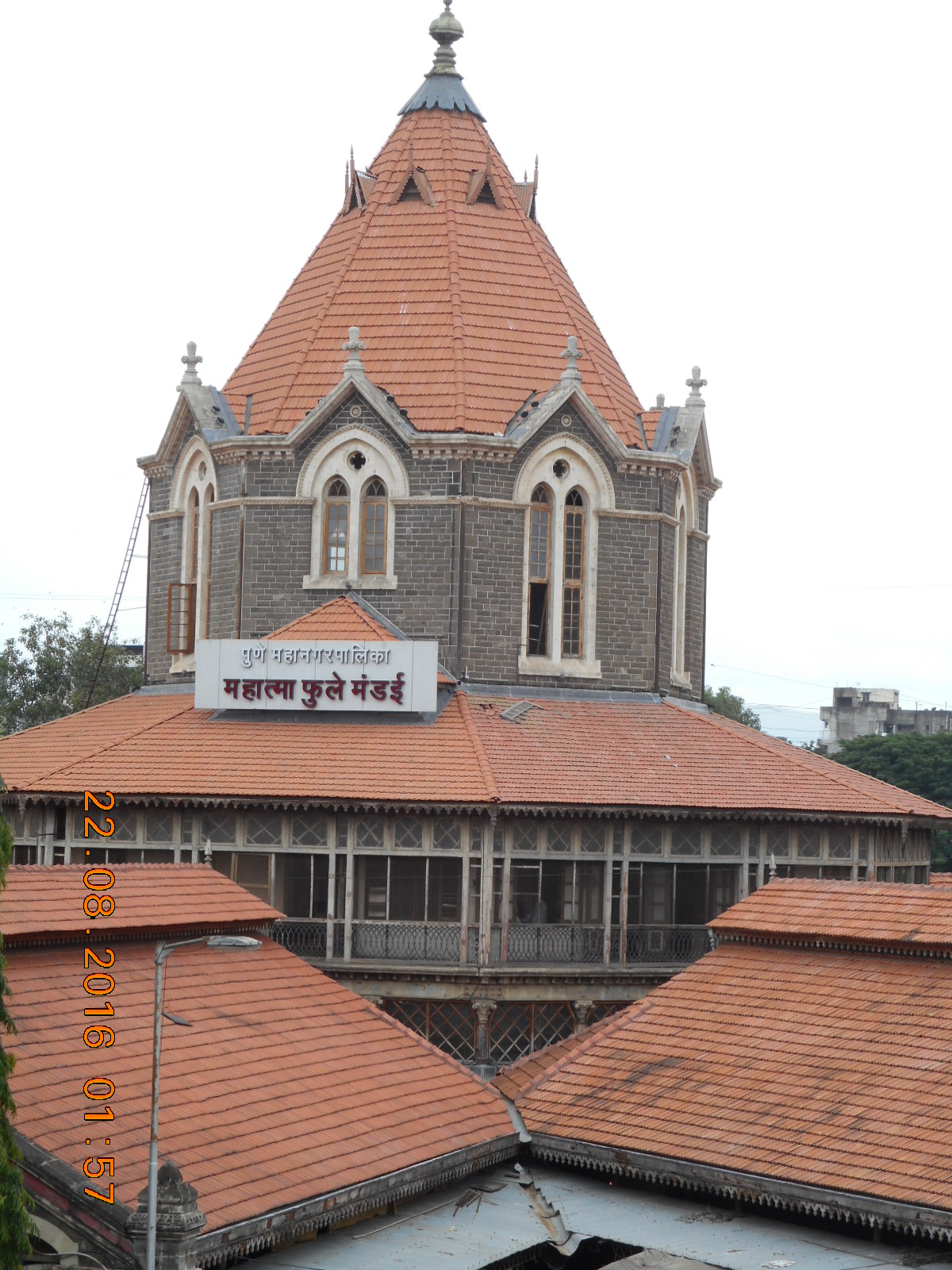 The spire of Mahatma Phule market, Pune